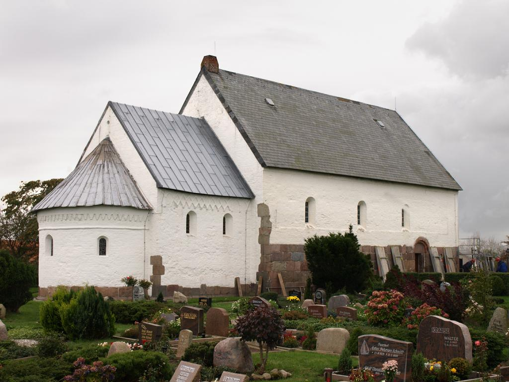 Morsum (Sylt), Slesvic-Holstein (Germany): church, photo 2008